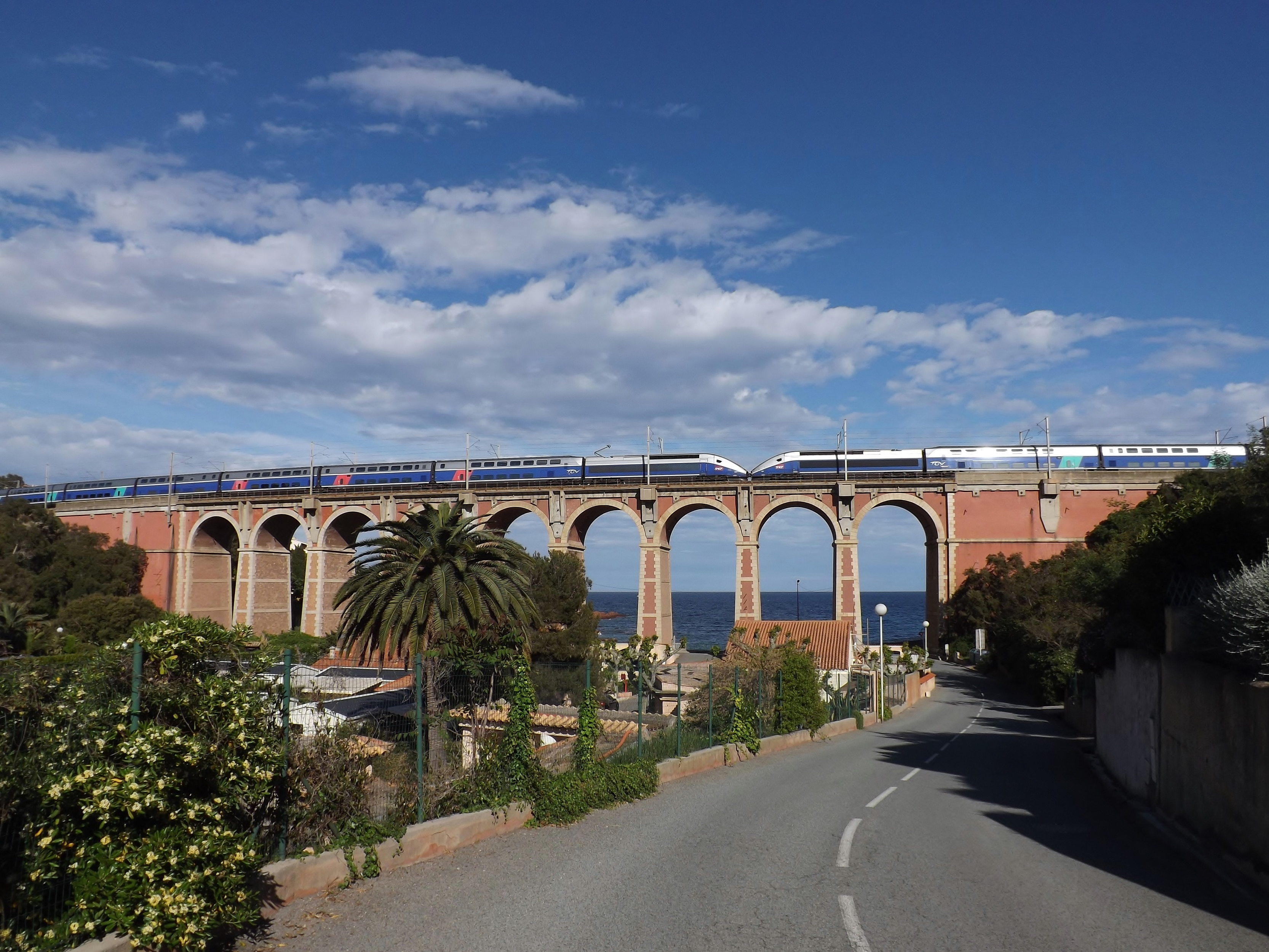 Sight of the viaduc d'Anthéor bridge, with two TGV Duplex bound for Nice passing, in the hamlet of Anthéor (commune of Saint-Raphaël), Alpes-Maritimes, France.